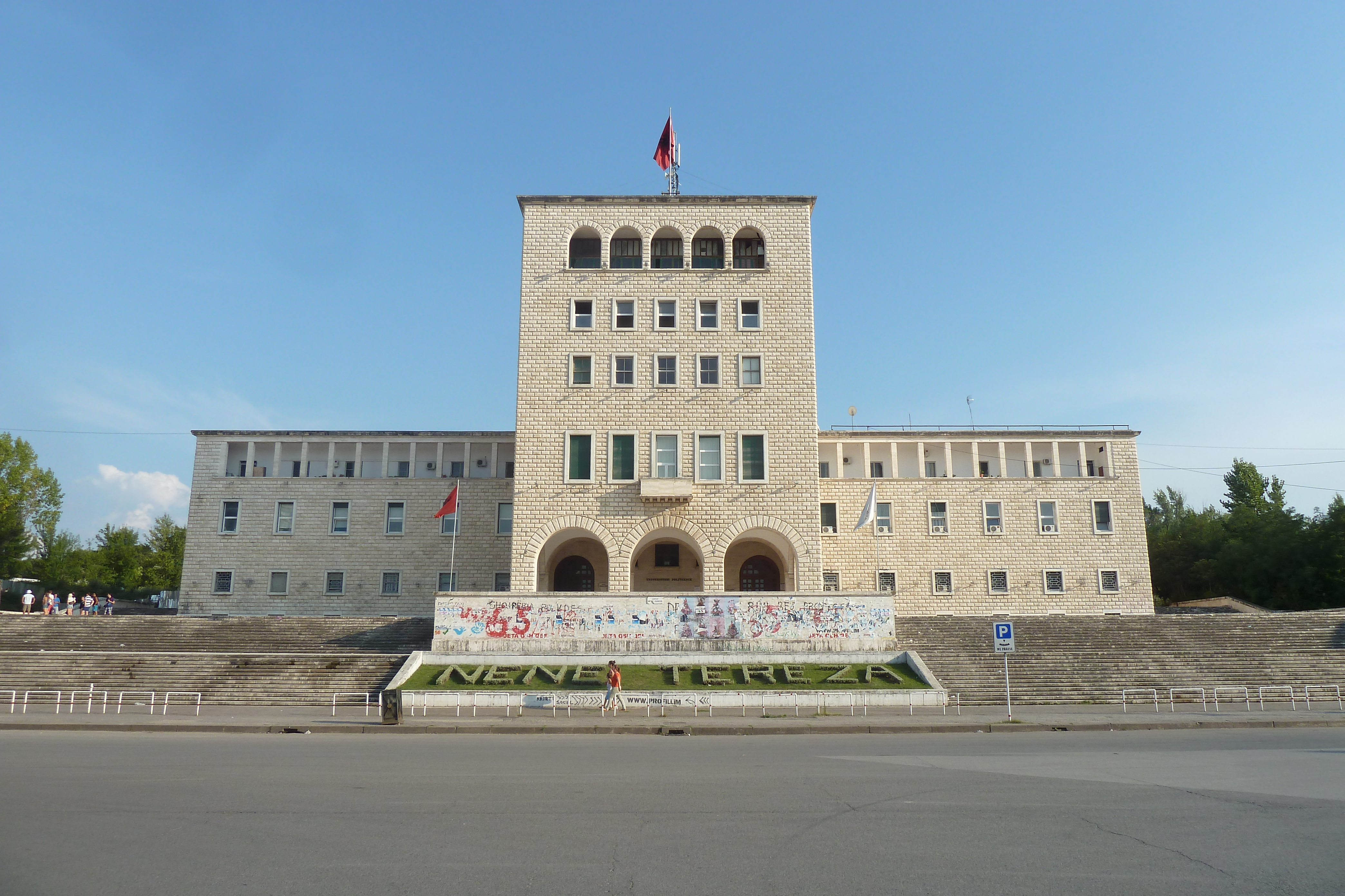 Universiteti Politeknik, Boulevardi Dëshmorët e Kombit, Tirana, Albania.